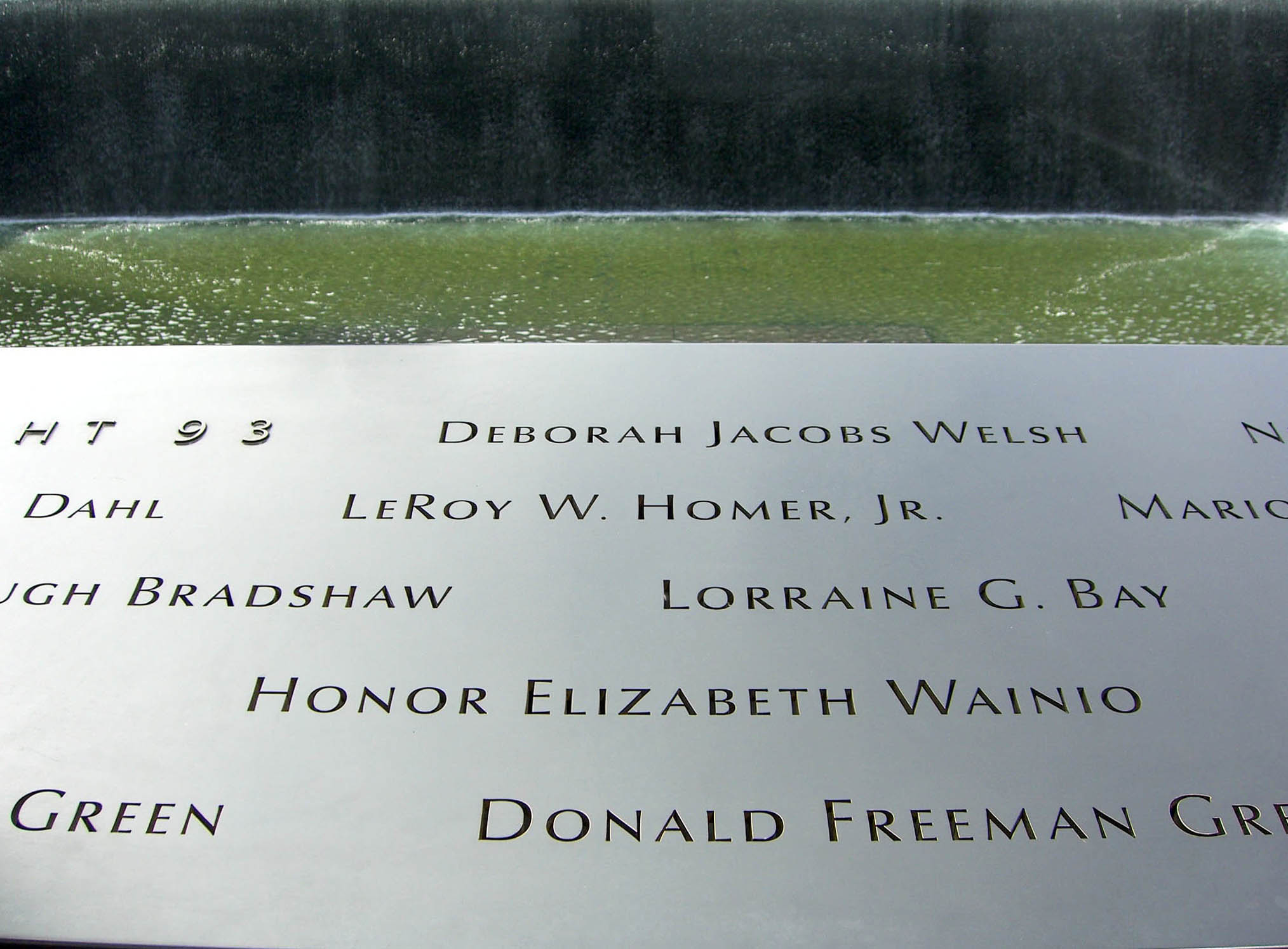 The name of United Airlines Flight 93 First Officer LeRoy Homer, Jr. is seen those of other passengers and crew who lost their lives in the September 11 attacks on Panel S-67 of the National 9/11 Memorial's South Pool in Manhattan, as seen on April 28, 2012. This photo was created by Luigi Novi. If you have any questions, you can contact me by sending me an email or leaving a note at the bottom of my talk page.